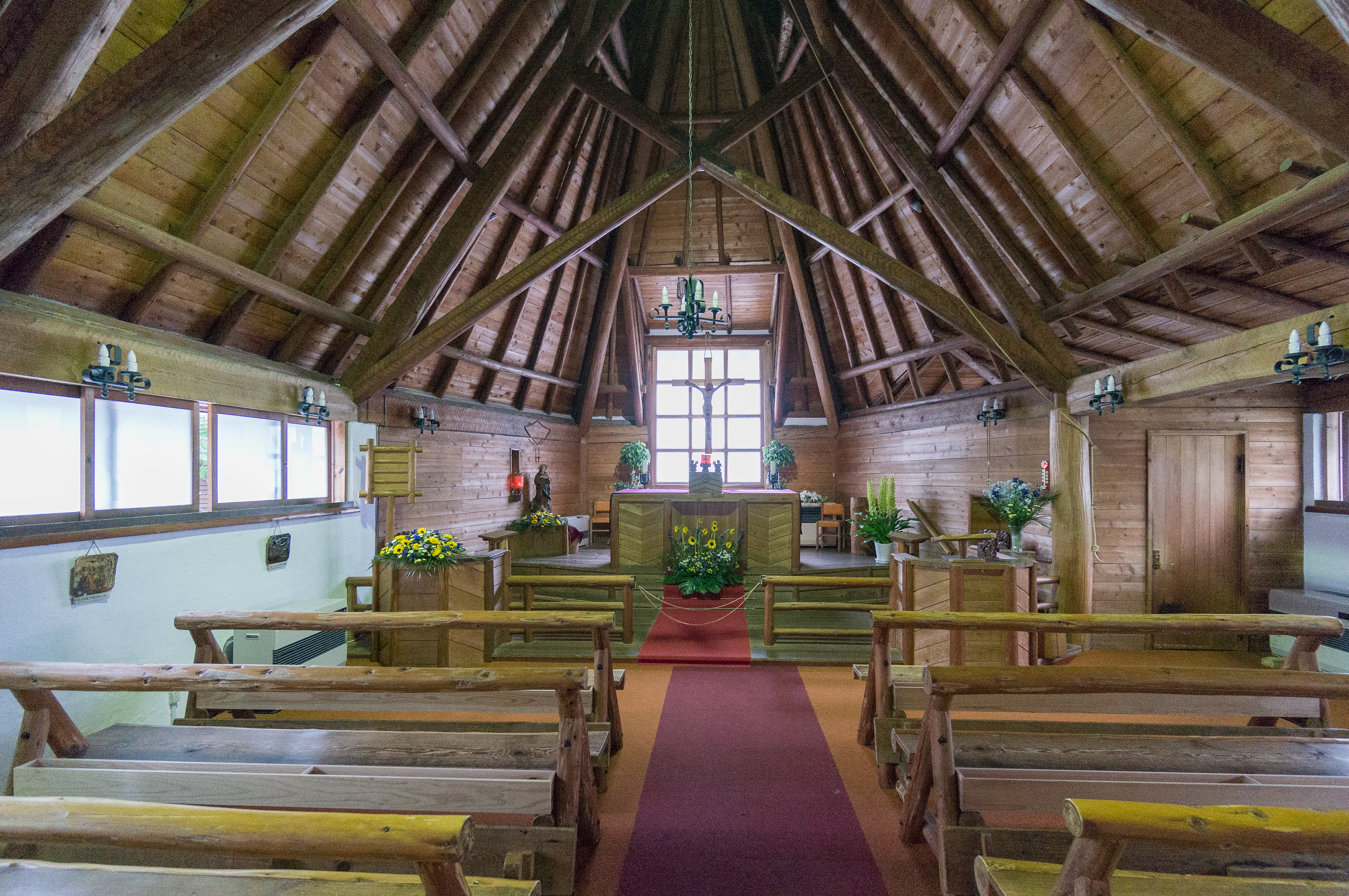 Interior of St. Paul's Catholic Church in Karuizawa, Nagano Prefecture, Japan.